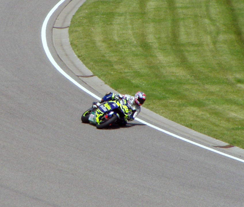 Colin Edwards in Sachsenring